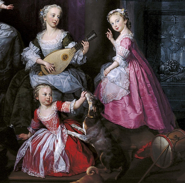 From File:The Family of Frederick, Prince of Wales.jpg